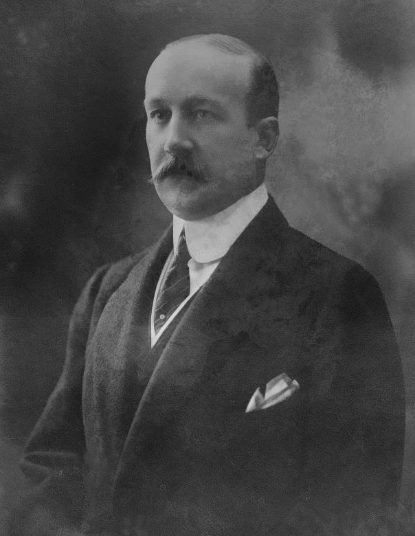 Bain News Service, publisher. Count Vincent M. DiCellere [between ca. 1910 and ca. 1915] 1 negative : glass ; 5 x 7 in. or smaller. Notes: Title from unverified data provided by the Bain News Service on the negatives or caption cards. Forms part of: George Grantham Bain Collection (Library of Congress). Format: Glass negatives. Repository: Library of Congress, Prints and Photographs Division, Washington, D.C. 20540 USA, General information about the Bain Collection is available at Persistent URL: Call Number: LC-B2- 2917-12